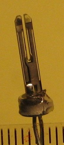 32768 Hz quartz crystal resonator, removed from its metal case, from a quartz clock or watch. This is the device that is the timekeeper in quartz timepieces. It consists of a piece of quartz shaped like a tiny tuning fork resonator, with metal electrodes plated on either side which attach to a crystal oscillator circuit. When electric power is applied, the two arms of the fork vibrate rapidly, apart and together, 32768 times per second. This creates an oscillating electric signal in the circuit of this frequency, which is divided by electronic counters to provide pulses to advance the hands or digits of the clock